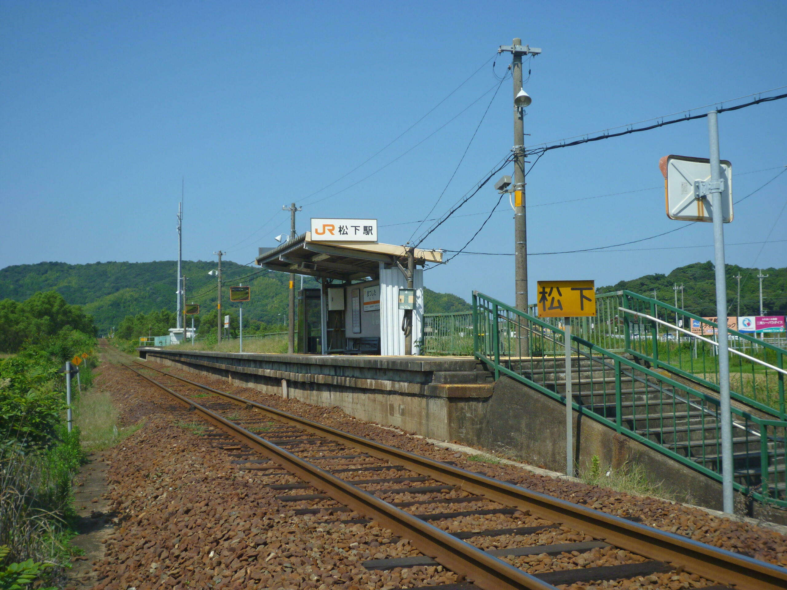 JR Central Sangū Line Matsushita Station in Futami-chō-Matsushita, Ise, Mie, Japan.